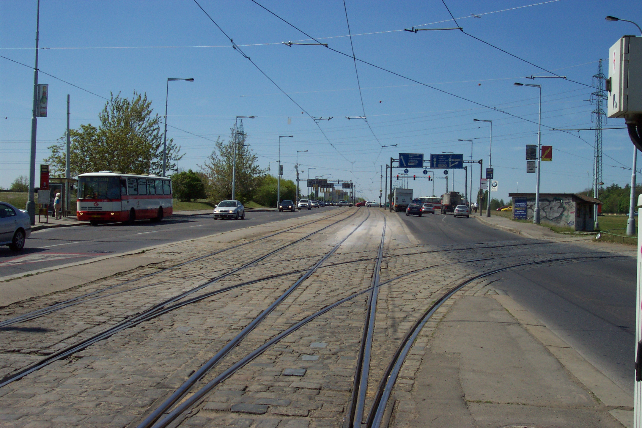 The Vypich place at Prague Břevnov